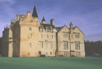 Brodie Castle, Moray, Scotland.